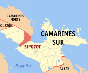 Map of Camarines Sur showing the location of Sipocot